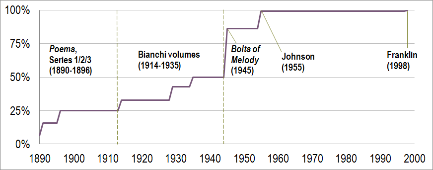 Proportion of Emily Dickinson's poetry published over time in the volumes of 1890, 1891, 1896, 1914, 1929, 1935, and 1945; and the variorum editions of 1955 and 1998.